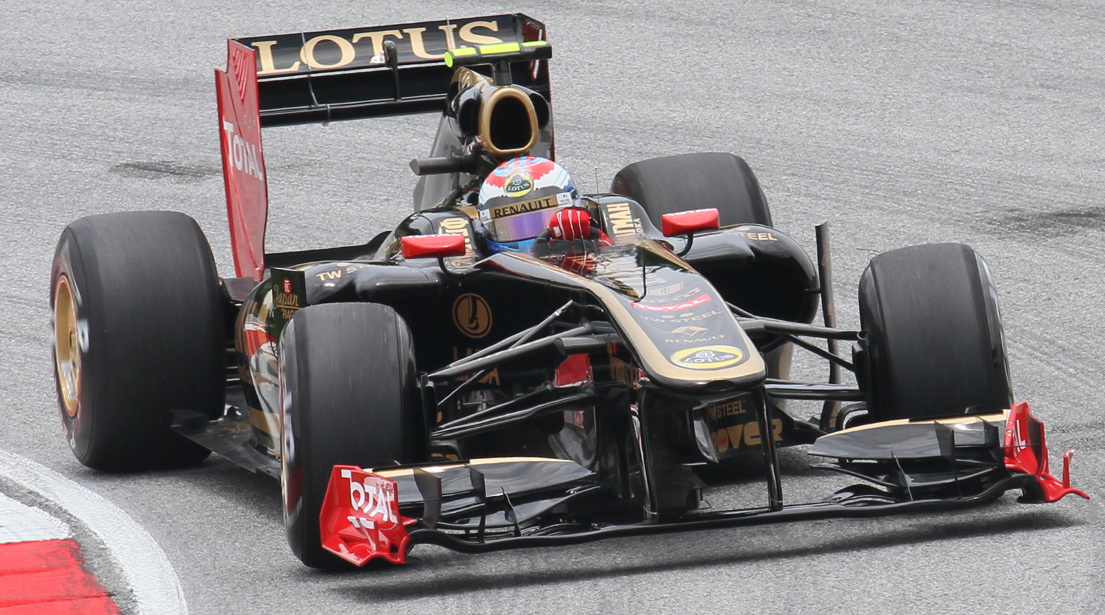 Formula One 2011 Rd.2 Malaysian GP: Vitaly Petrov (Renault) during the third practice session on Saturday.